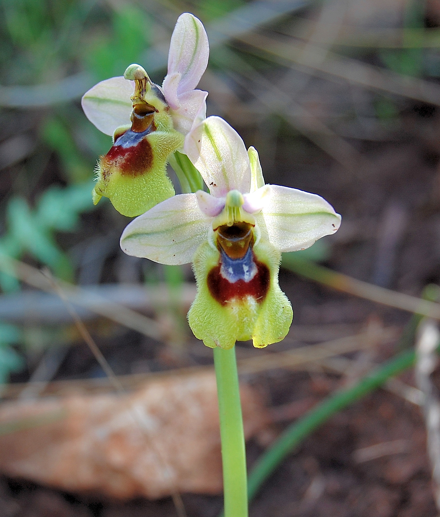 Ophrys tenthredinifera Riserva dello Zingaro, Sicily